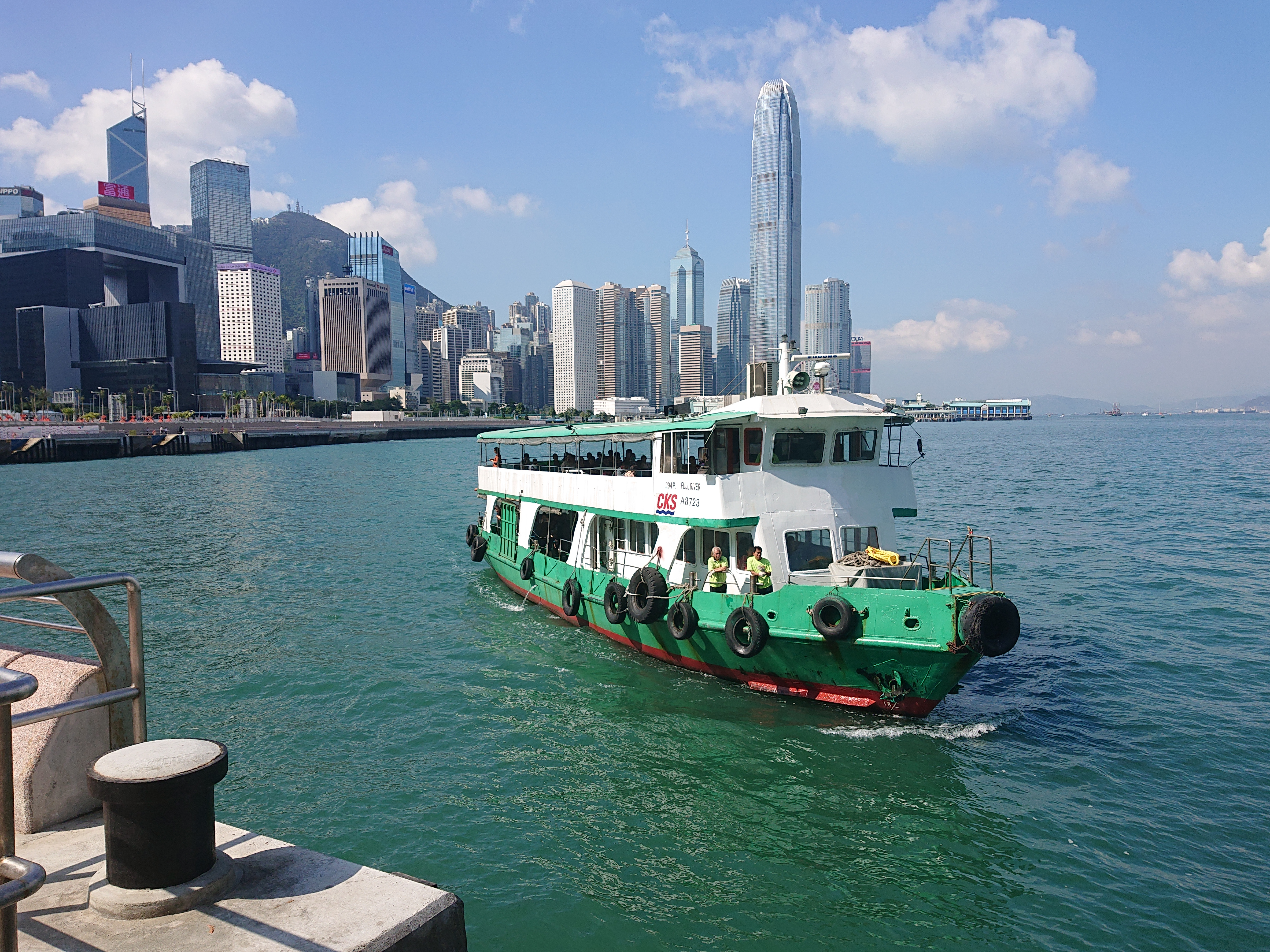 Government Ferry at Wan Chai Public Pier